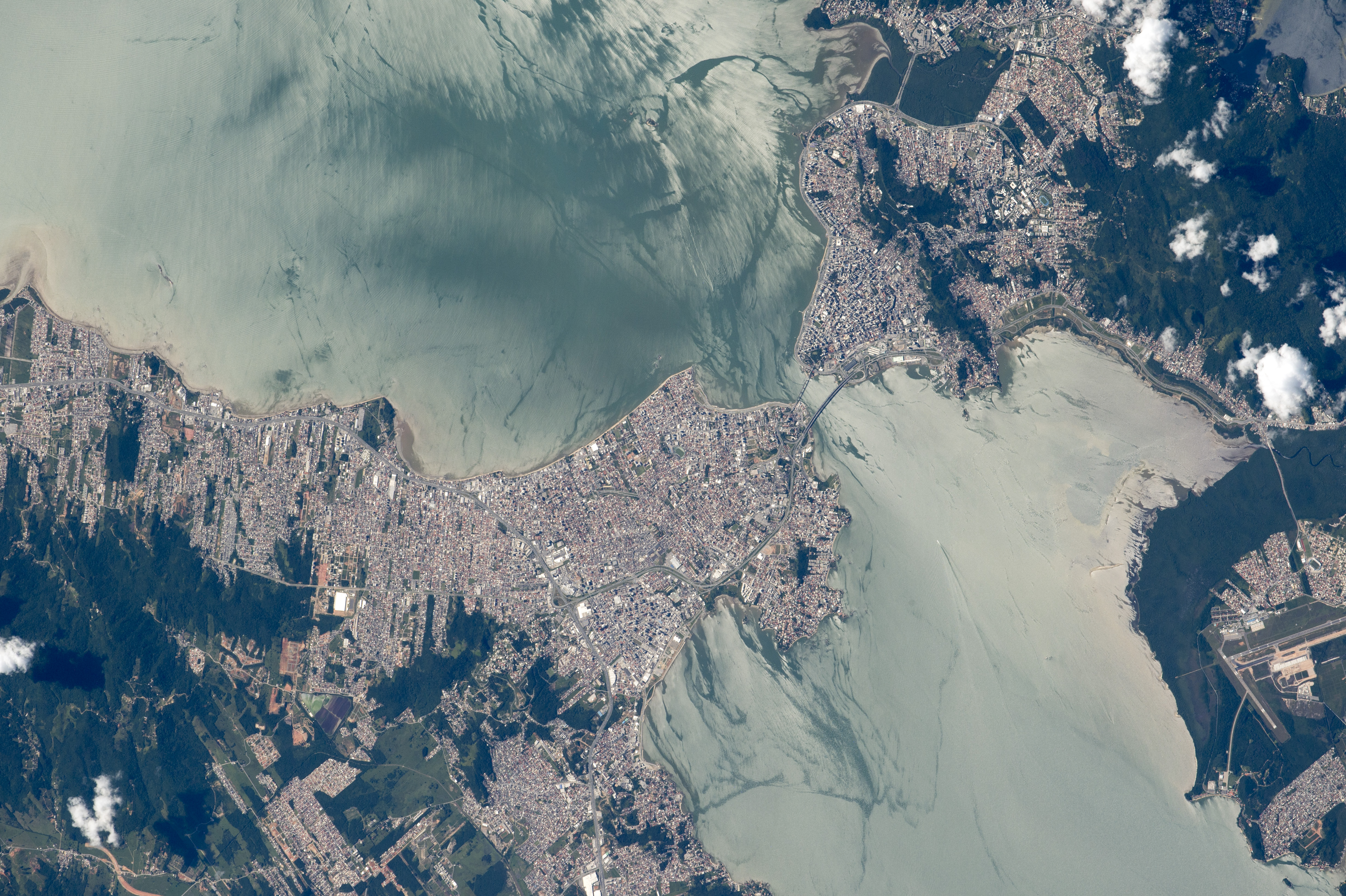 Florianópolis in Brazil. Images by NASA astronauts show how sunlight emphasises different features in the water and around coastal cities